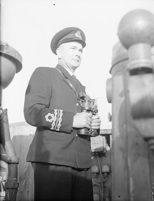 Naval Vc Commanding Veteran Destroyer, Sinks U-boat in Big North Atlantic Action. 13 To 16 1943, Liverpool, Lieut Commander R B Stannard, Vc, Making His First Trip As Skipper of HMS Vimy, Has Sent a U-boat To the Bottom. the Vimy 25 Year Old Veteran Destroyer Built during the Last War, Was Escorting Her First Atlantic Convoy When Enemy U-boats Attacked. during the Successful 3 Day and Night Battle in the North Atlantic HMS Vimy Forced One of the U-boats To Surface With Depth Charges and Completed Its Destruction by Gun Fire. German Survivors Were Rescued and Brought As Prisoners To a Northern Port. the Whole Action Was One of the Heaviest Defeats Inflicted on U-boats during the War. Lieut Cdr R B Stannard, VC, RNR, on the bridge of HMS VIMY.